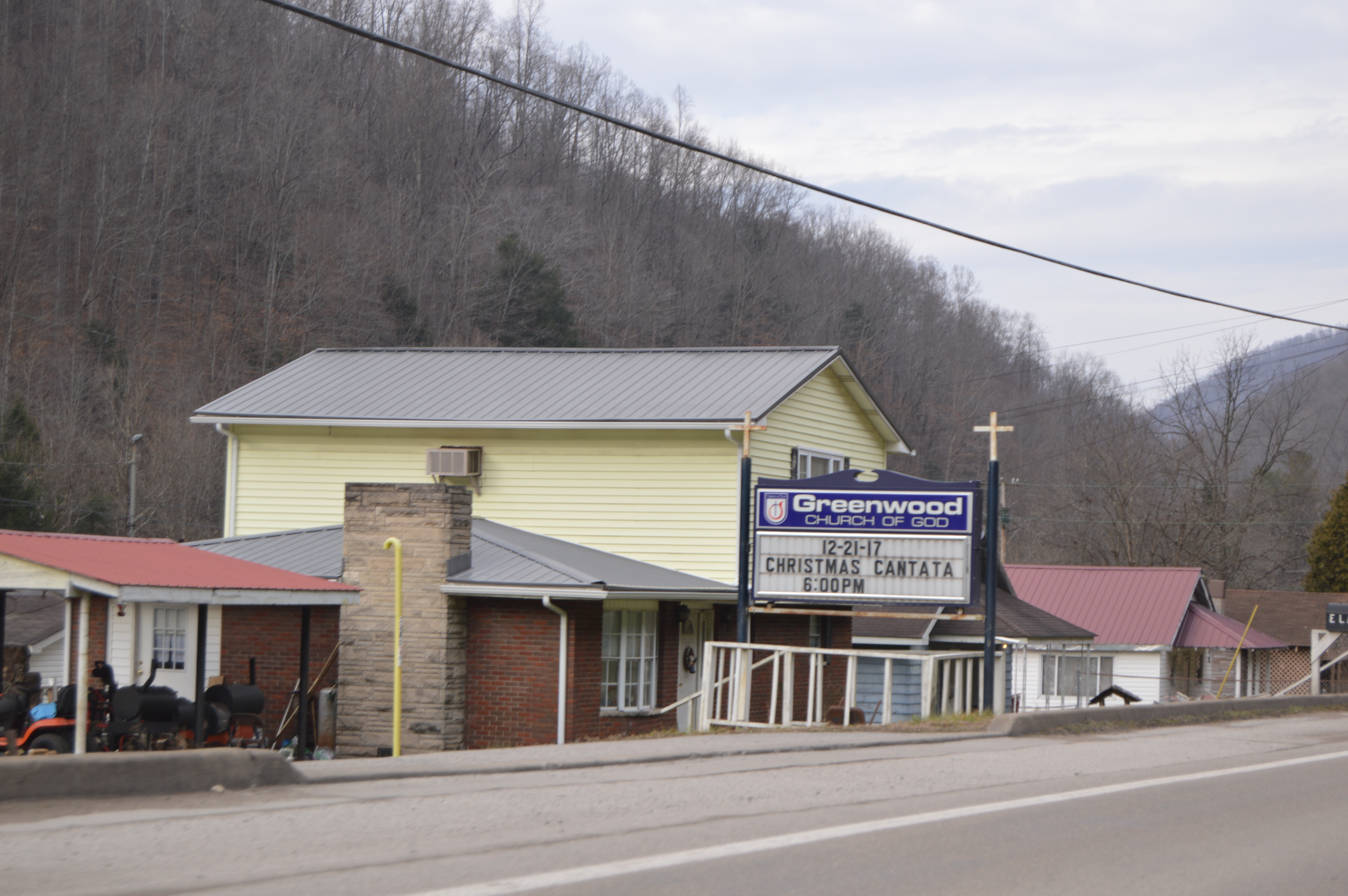 Houses on West Virginia Route 85 at Greenwood in Boone County, West Virginia, United States.